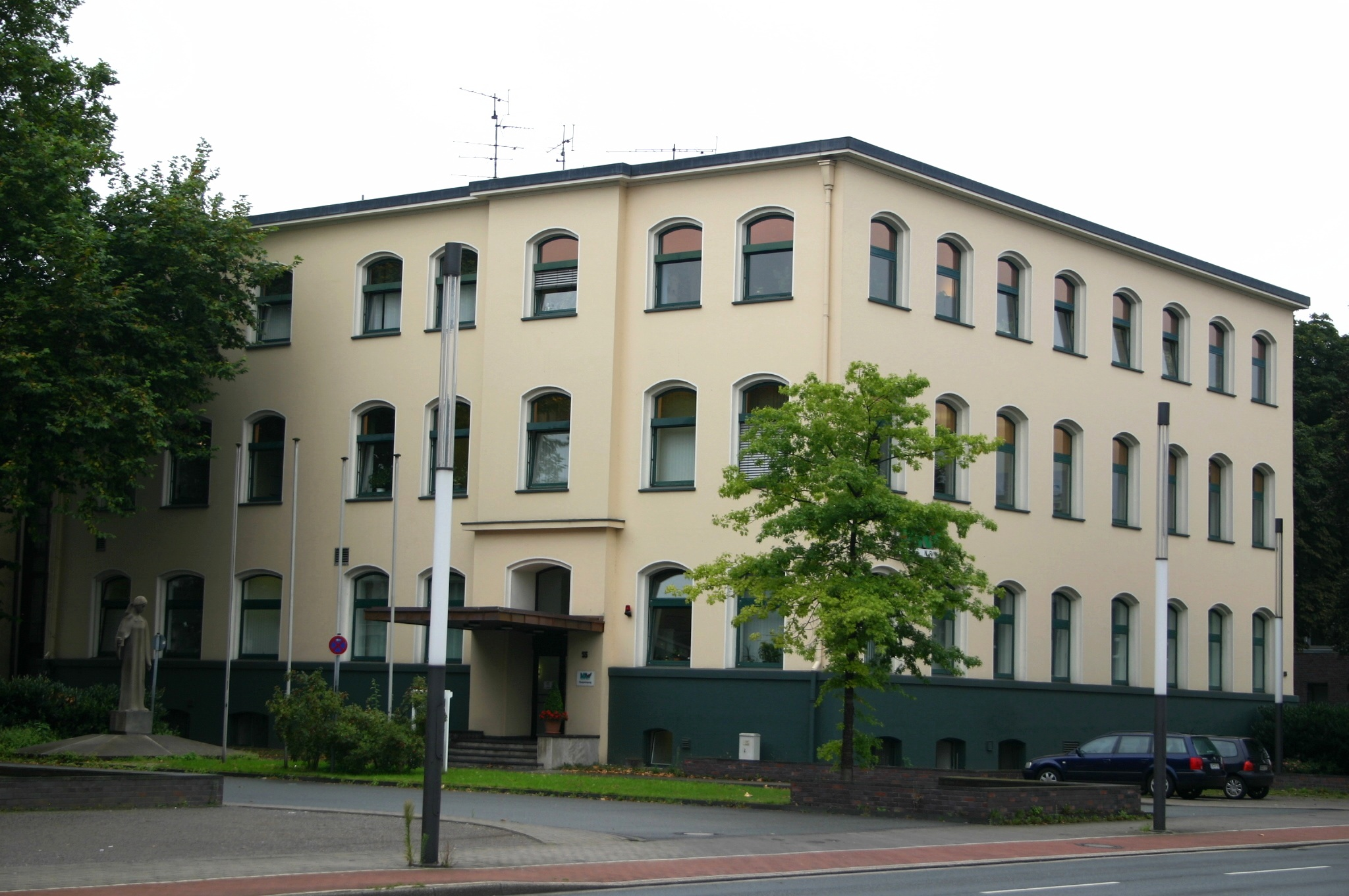 Former administration of the Gutehoffnungshuette in Oberhausen (Germany)